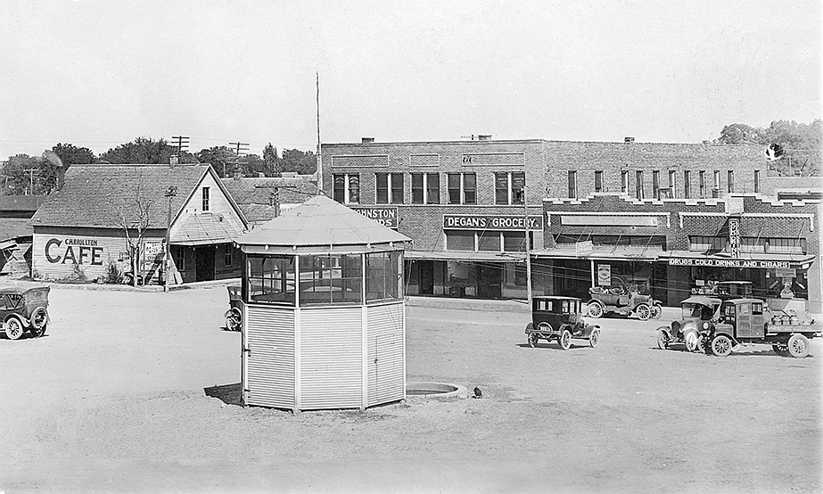 Title: Carrollton, Texas Creator: Unknown Date: ca. 1910-1930 Part of: George W. Cook Dallas/Texas image collection Series: Series 3: Photographs Series 3, Subseries 3, Postcards Series 3, Subseries 3d, RPPC, Texas Place: Carrollton, Dallas County, Texas Description: This real photographic postcard shows automobiles and trucks parked on the street near retail stores in Carrollton, Texas. Physical Description: 1 photographic print (postcard): gelatin silver; 9 x 14 cm File: a2014_0020_3_3_d_0406_r_carrolltontown_opt.jpg Rights: Please cite DeGolyer Library, Southern Methodist University when using this file. A high-resolution version of this file may be obtained for a fee by contacting . For more information and to view the image in high resolution, see